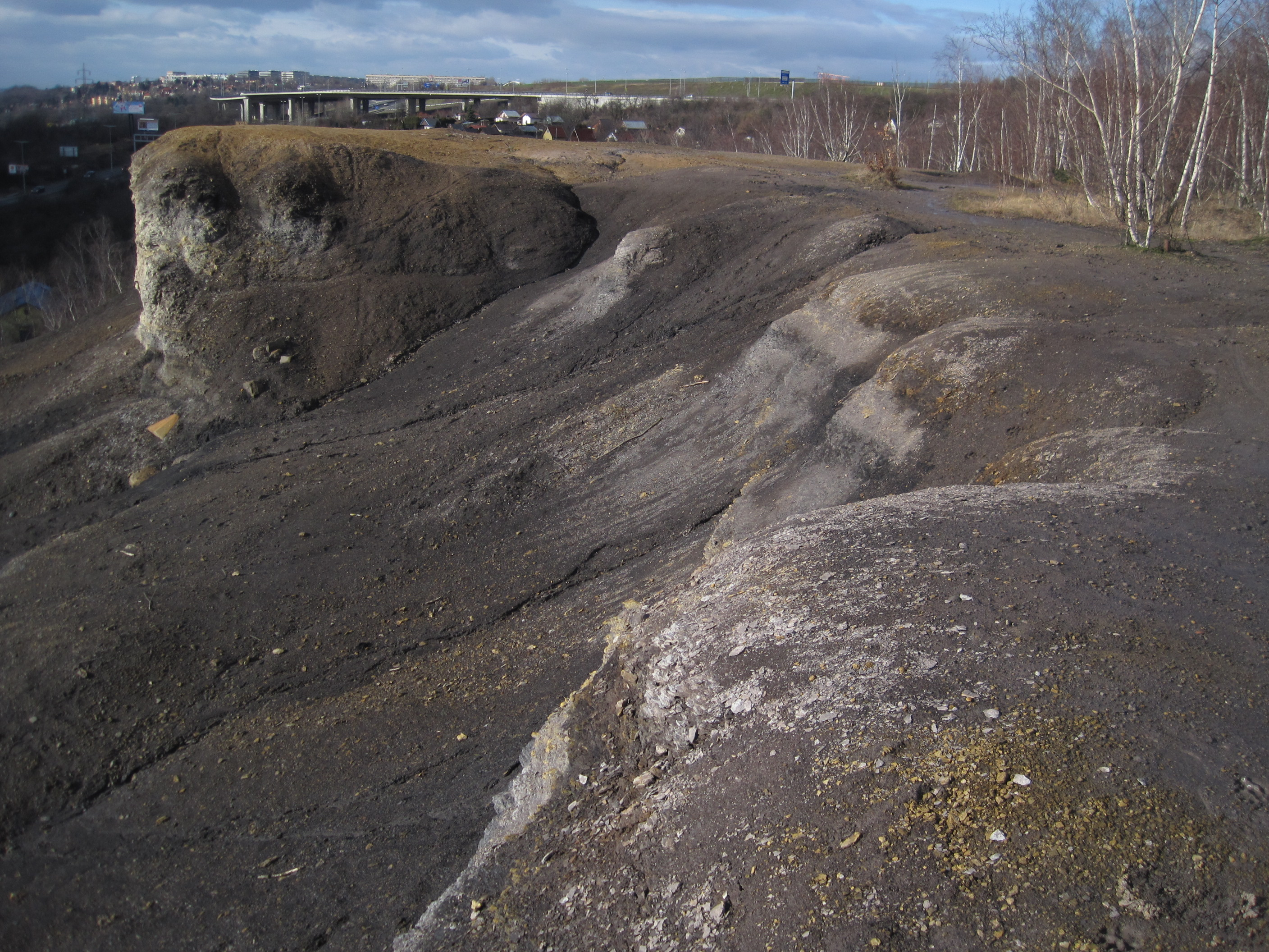 Natural monument Cihelna v Bažantnici in Prague, Czech Republic